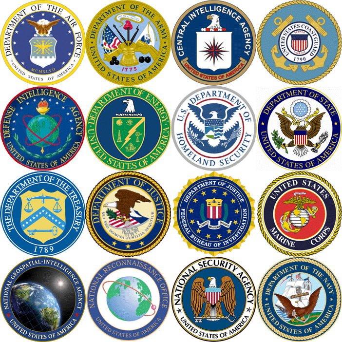 Seals of members of the US Intelligence Community